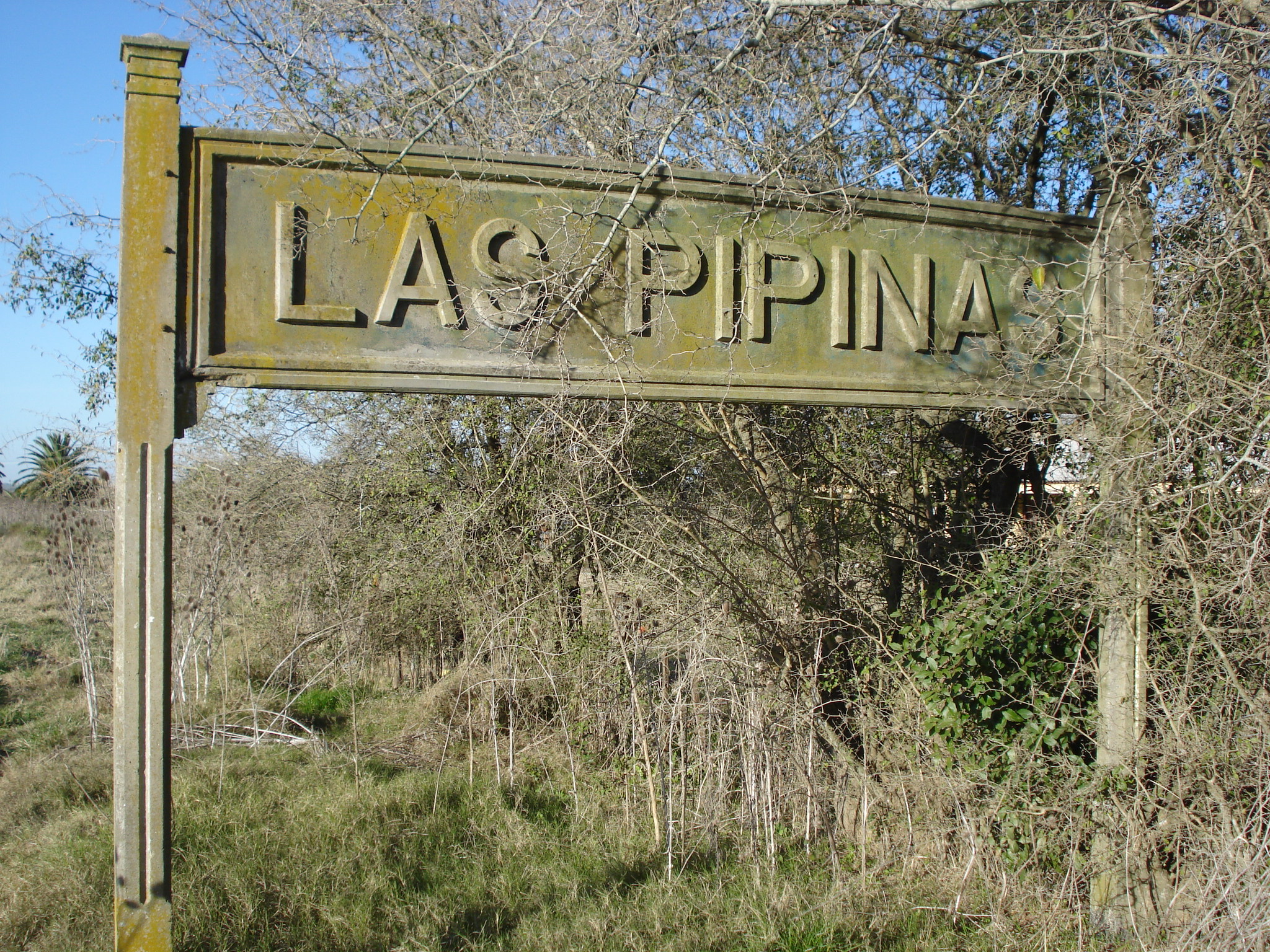 Indicator of the railway station without service Las Pipinas